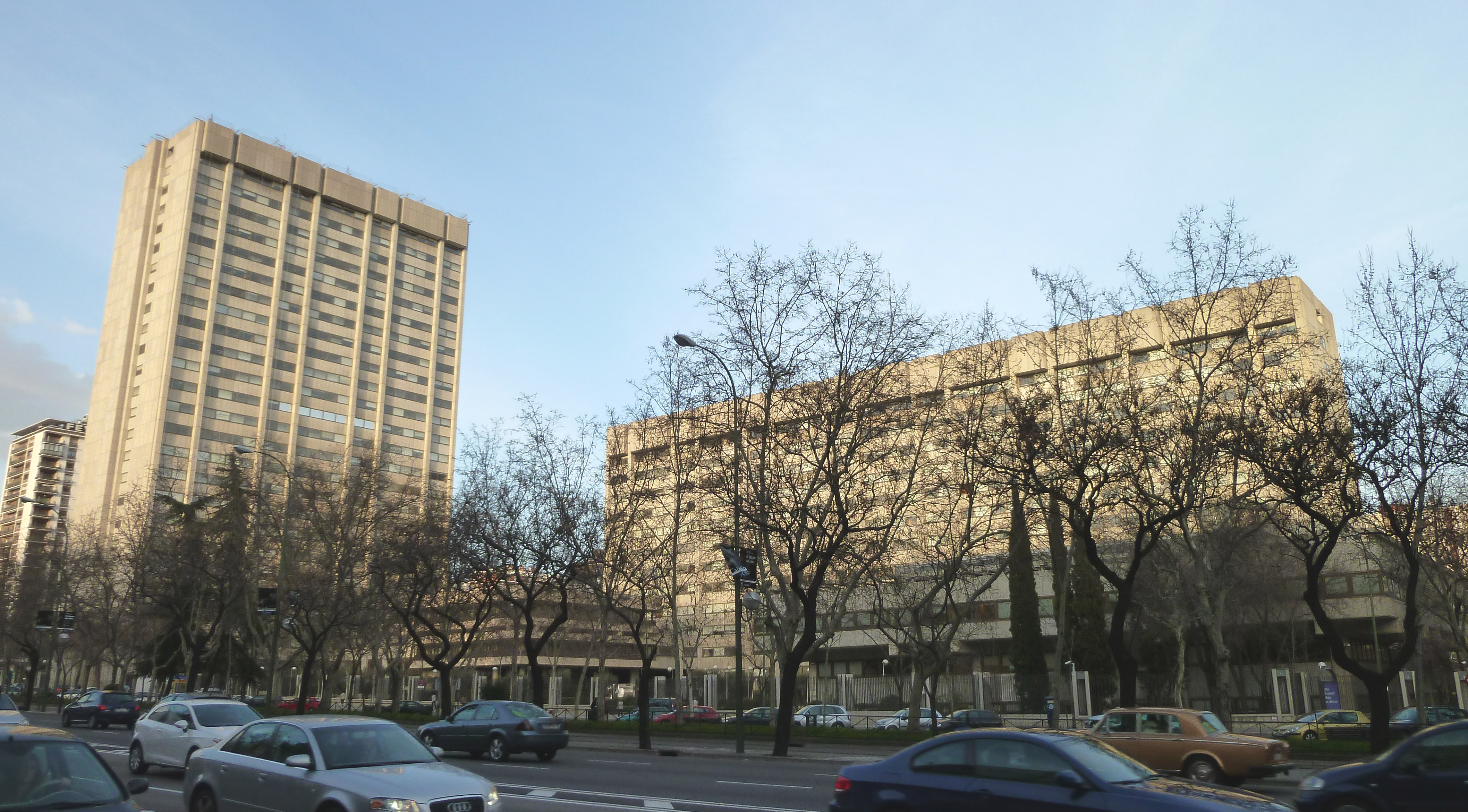 Headquarters of the Spanish Ministry of Industry, Energy and Turism, at 162 Paseo de la Castellana (an avenue) in Chamartín district in Madrid.